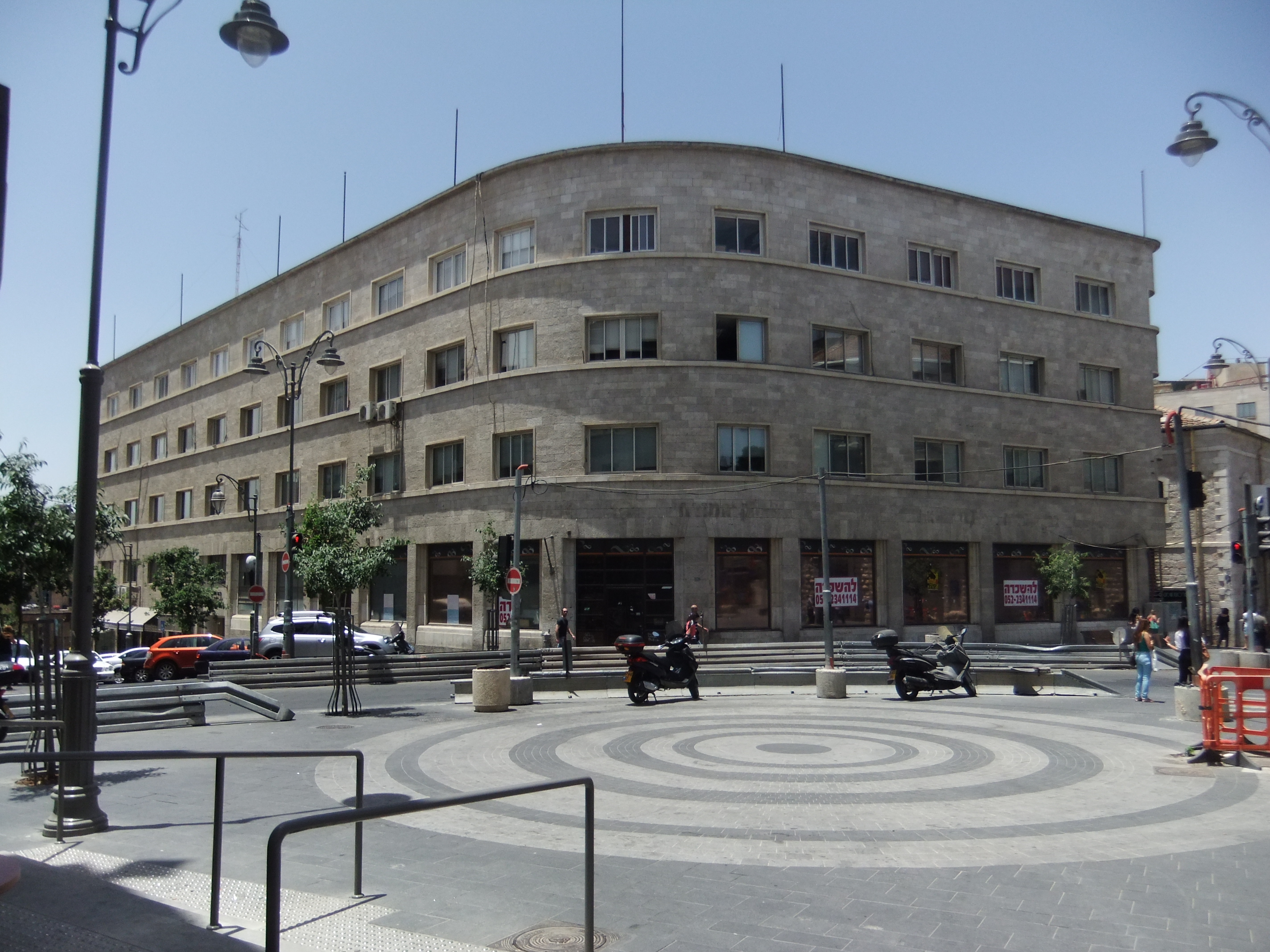 Mitzpe building in Jerusalem taken from Jaffa road